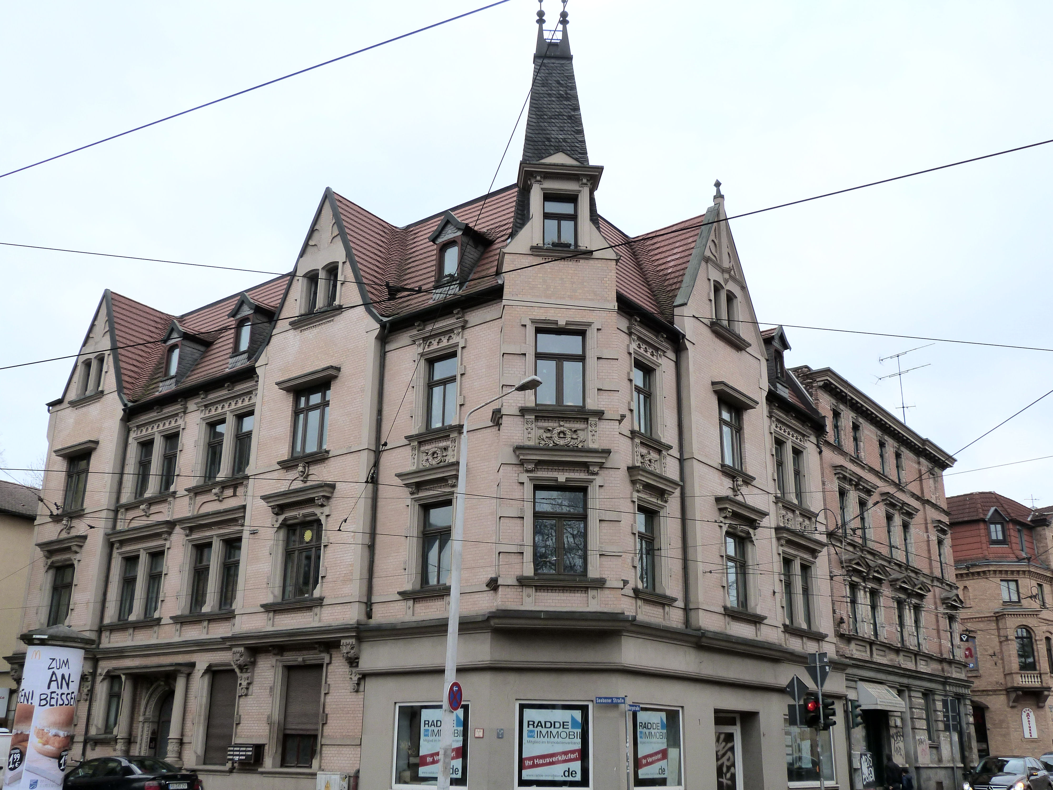 House No. 1 Burgstrasse in Halle (Saale)